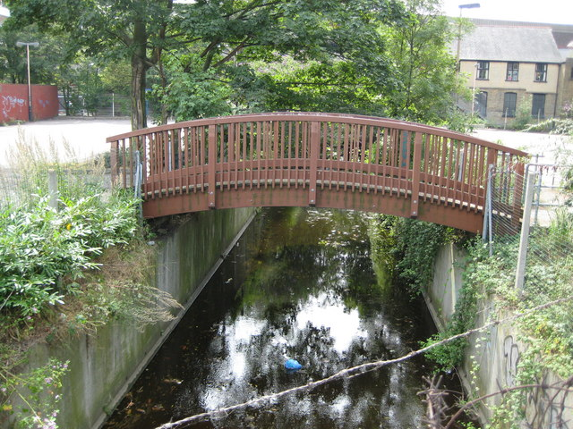 River Rom in Romford The River Rom just clips across the north-east corner of this grid square as it goes under the Romford Ring Road, prior to entering a long culvert under the Brewery Development site. This is the view looking downstream from the ring road bridge with a rather attractive footbridge that allows pedestrian access between two car parks.